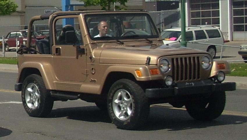 Jeep TJ/Wrangler photographed in Laval, Quebec, Canada.